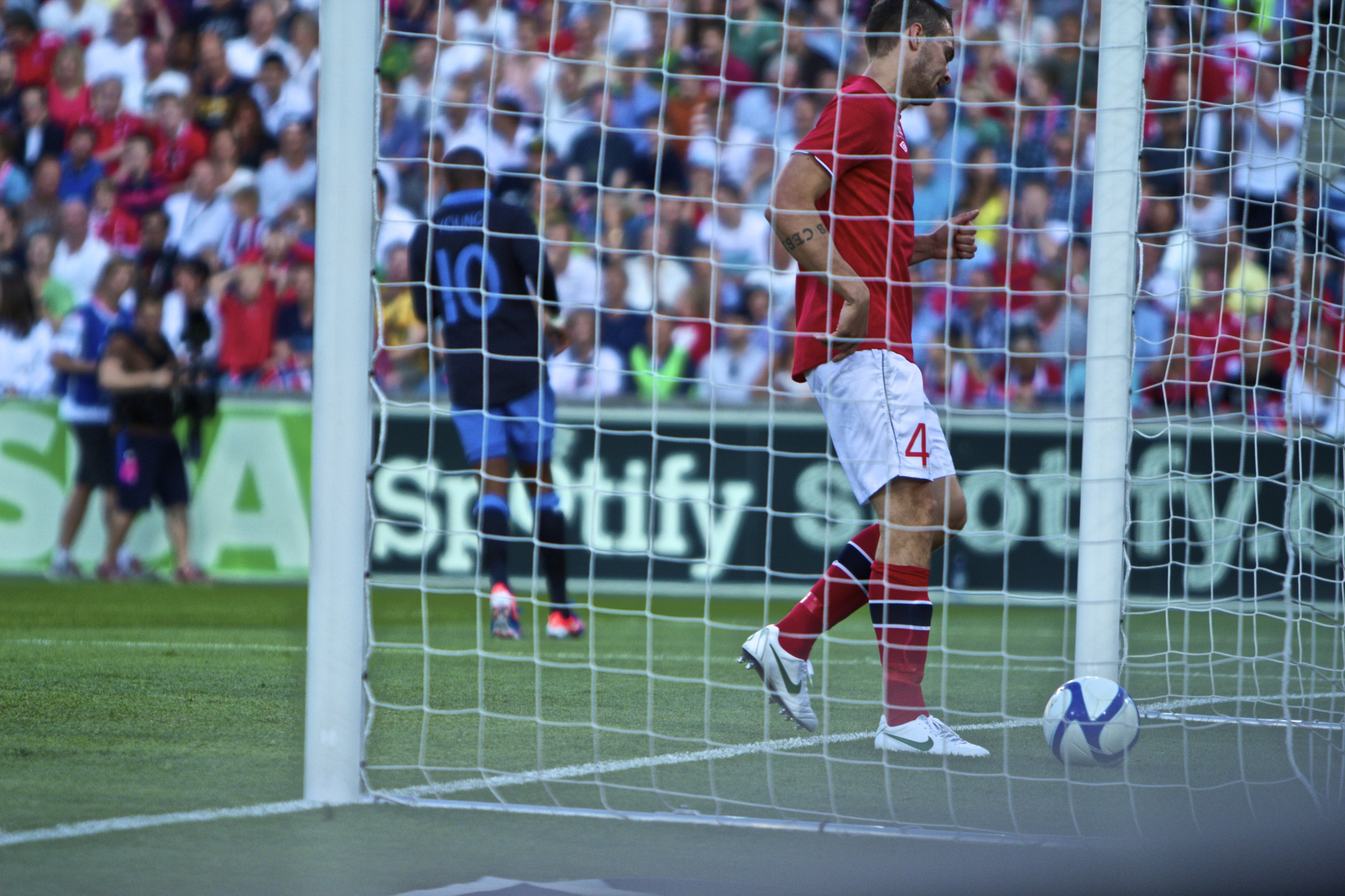 Vadim Demidov of Norway retrieves the ball after a goal by Ashley Young (background) of England in Oslo.